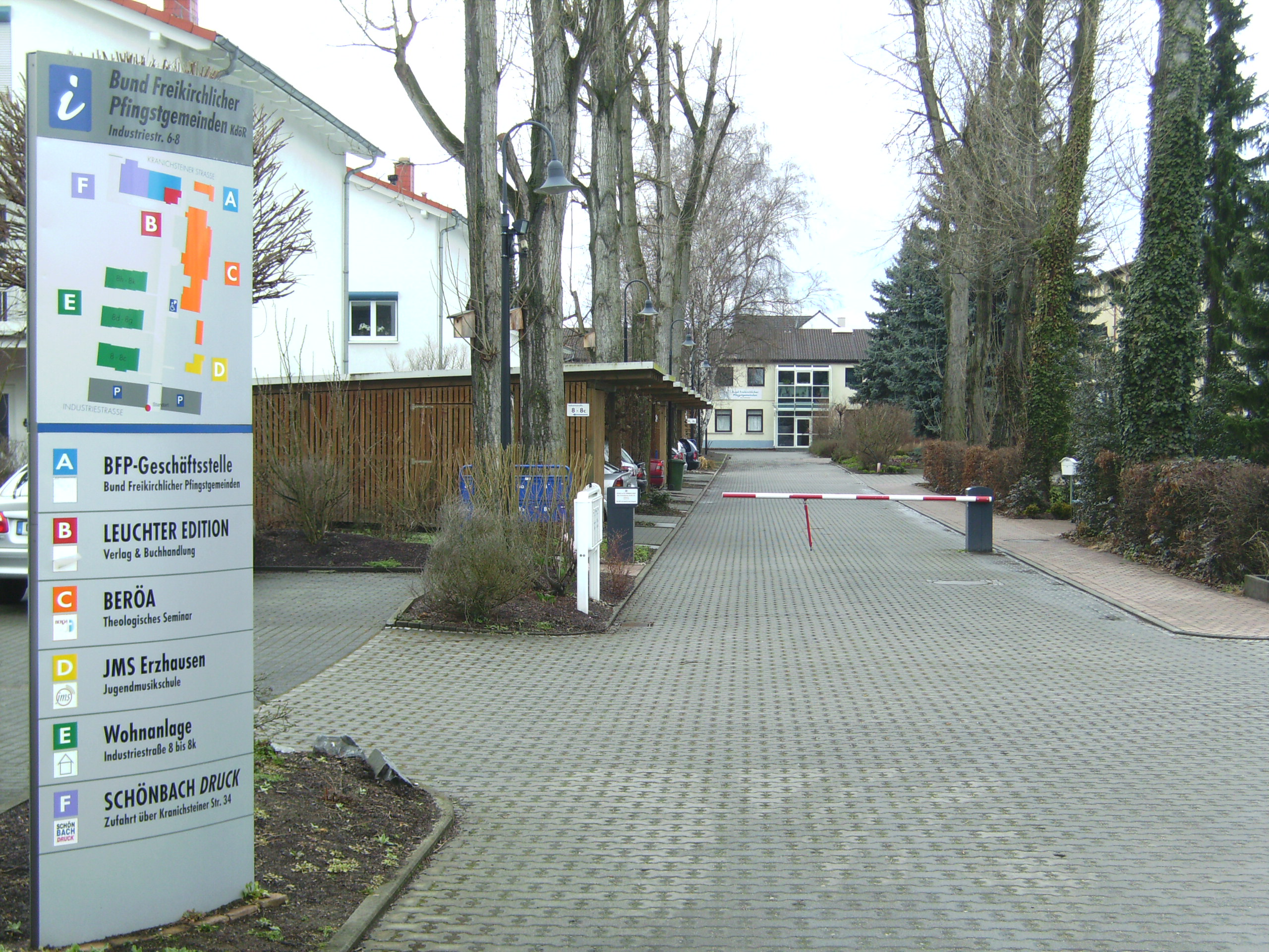 Theological Seminary Beröa, Erzhausen, Hesse, Germany, and Union of Free-Church Pentecostal Congregations (name correct translated?)